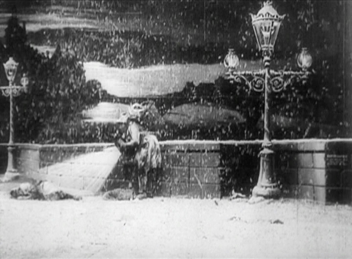 Still from Georges Méliès's film The Christmas Angel (Détresse et Charité, 1904).